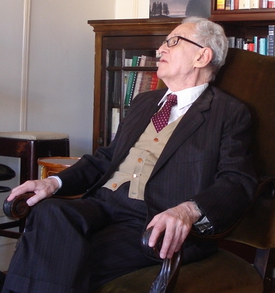 Jacques-Louis Monod at age 82.